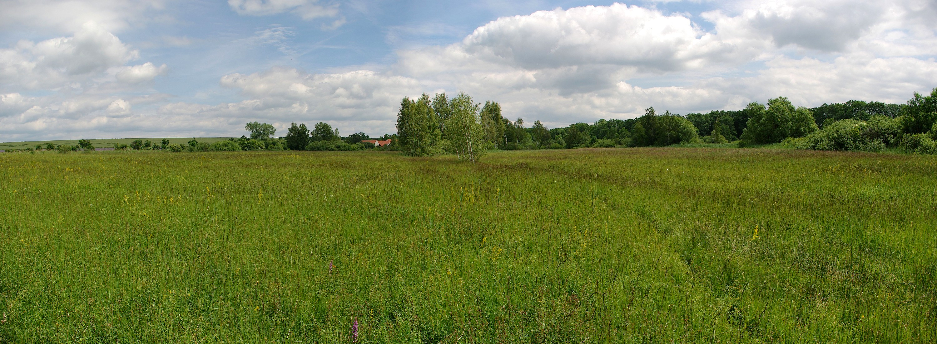 National natural monument Polabská černava in Mělník District, Czech Republic